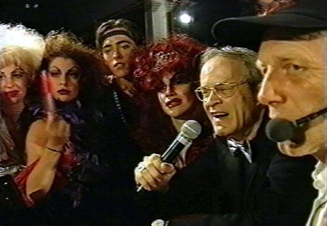 Wild Side Story cast (l-r: Johanna Mork, Linn Heller Johansson, H. Magnus Olsson, Jimmy Andersen) with Lars Jacob & Gert Fylking, as released by image creator Lars Jacob ProdPlace: Gamla Stans Bryggeri, Tullhus 2 Skeppsbrokajen, Stockholm, Sweden